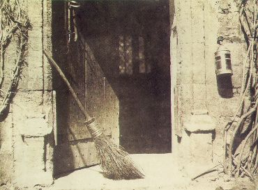 William Henry Fox Talbot's 'The Open Door'